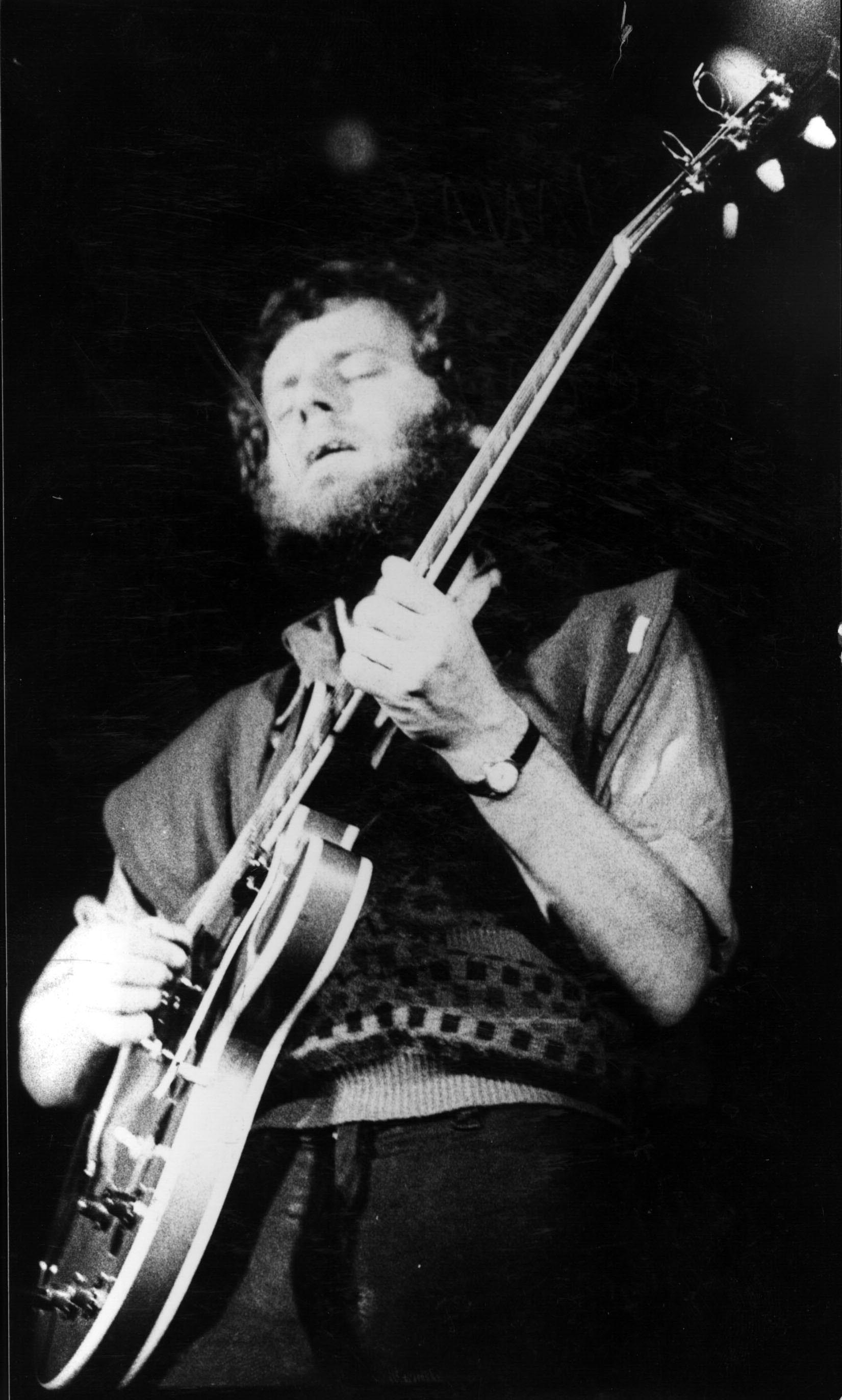 Claudio Gabis playing in 1981 at the Obras Sanitarias Stadium in Buenos Aires, Argentina